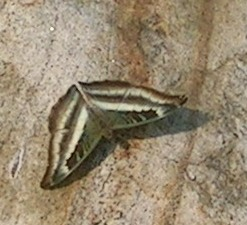 Auzakia danava, Nymphalidae, Lepidoptera from Munsiyari, the Central Himalayas, India